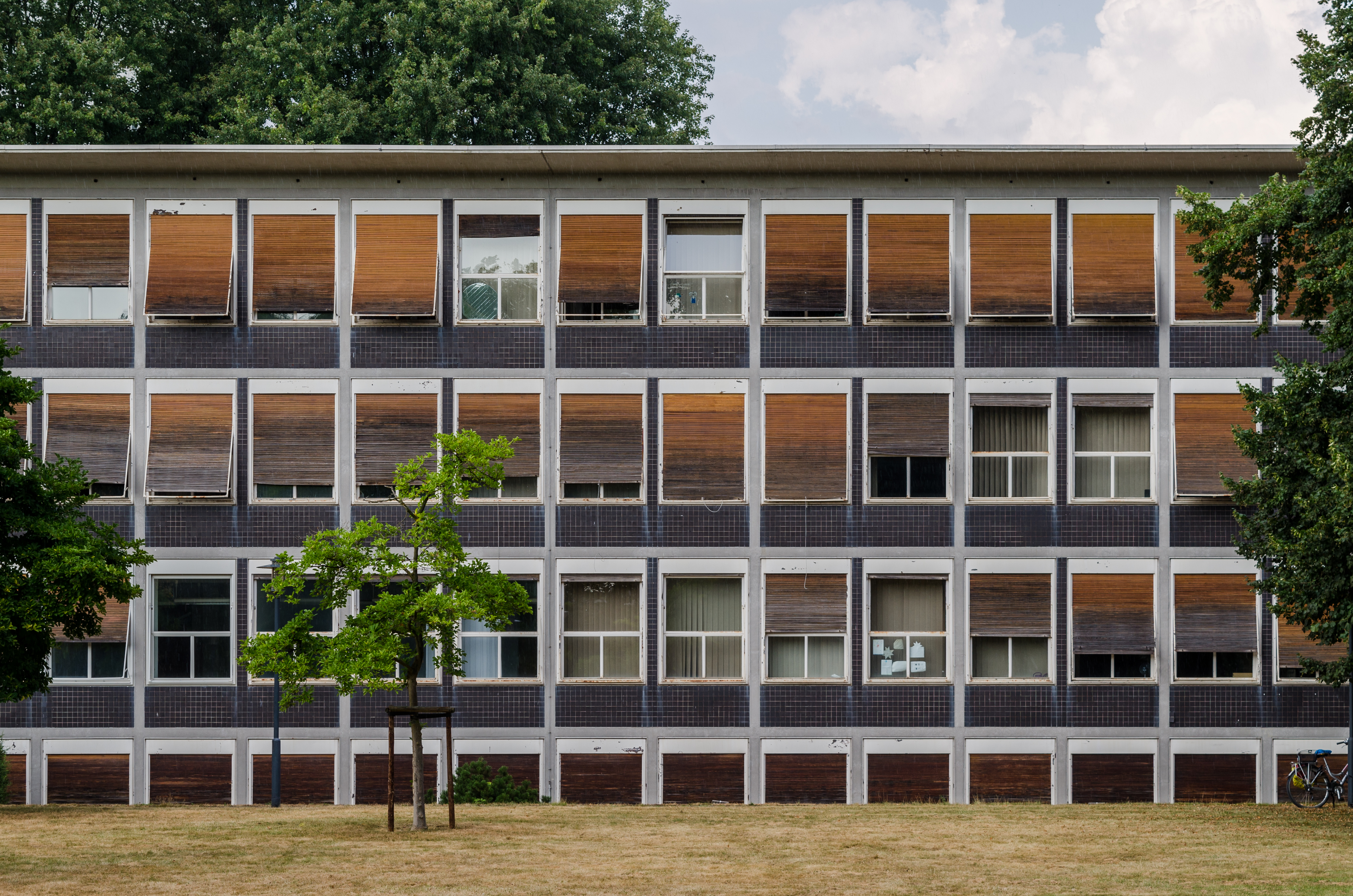 Krefeld (North Rhine-Westphalia, Germany) – district Kempener Feld – municipal house (“Stadthaus”, 1953–1956 by Egon Eiermann) – low-rise building – facade detail in the rain